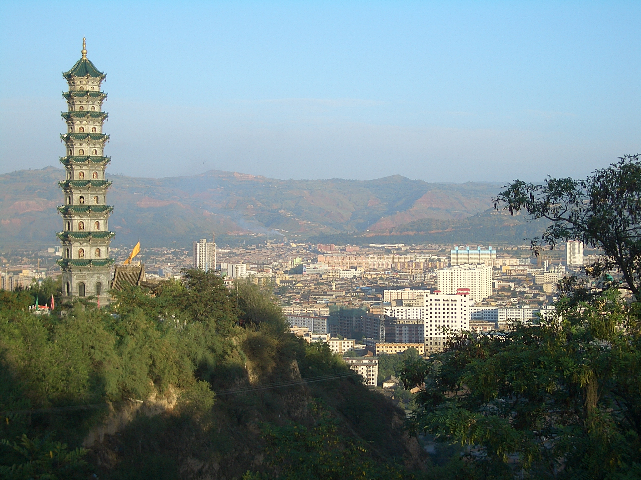 The pagoda of the Wanshou Guan Taoist temple, and the Linxia City below